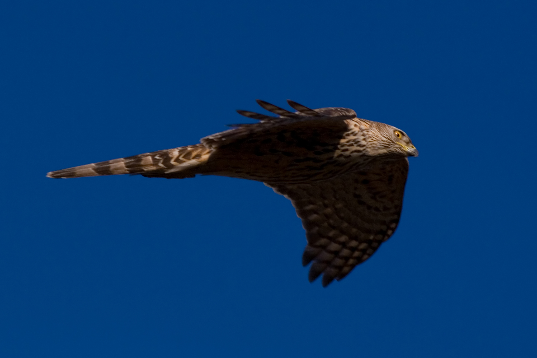 Juvenile Accipiter gentilis (Goshawk) in flight. Photographed at Vanhankaupunginlahti, Helsinki, Finland. The location is listed in Ramsar "List of Wetlands of International Importance". Geographic location (N):23355 (E):52520 (The coordinates are some 100 meter off. Information will be updated when connection to location server is established). When photographed, this bird was flying amazingly fast among herd of other birds, probaply chasing them. Notice that the bird has identification ring. Thanks for MPF for verifying identification.